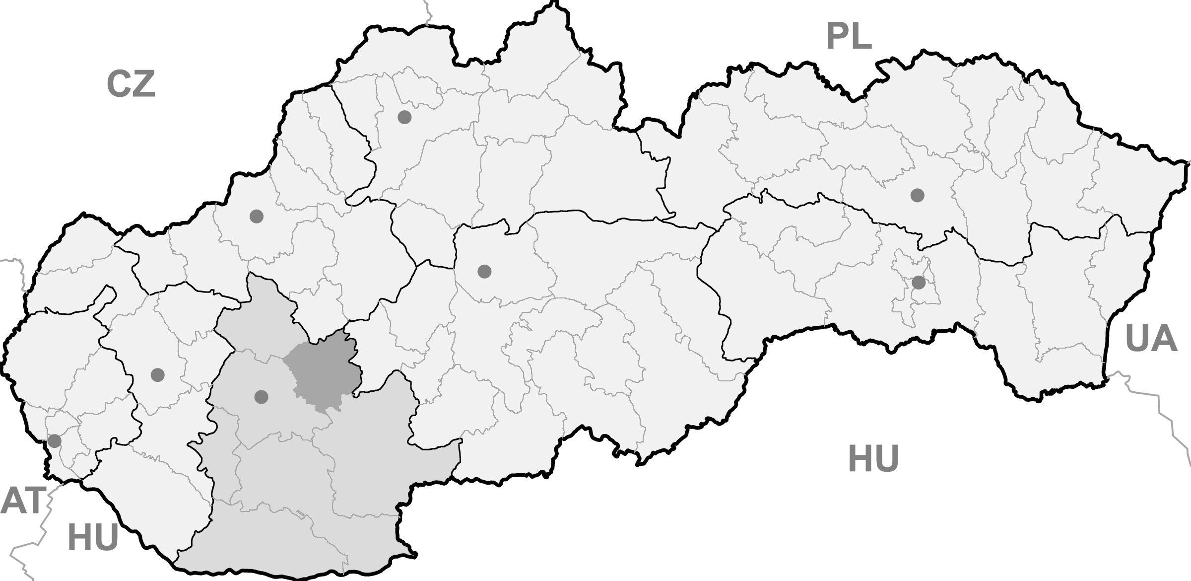 Map of Slovakia, Zlaté Moravce district and Nitra region highlighted